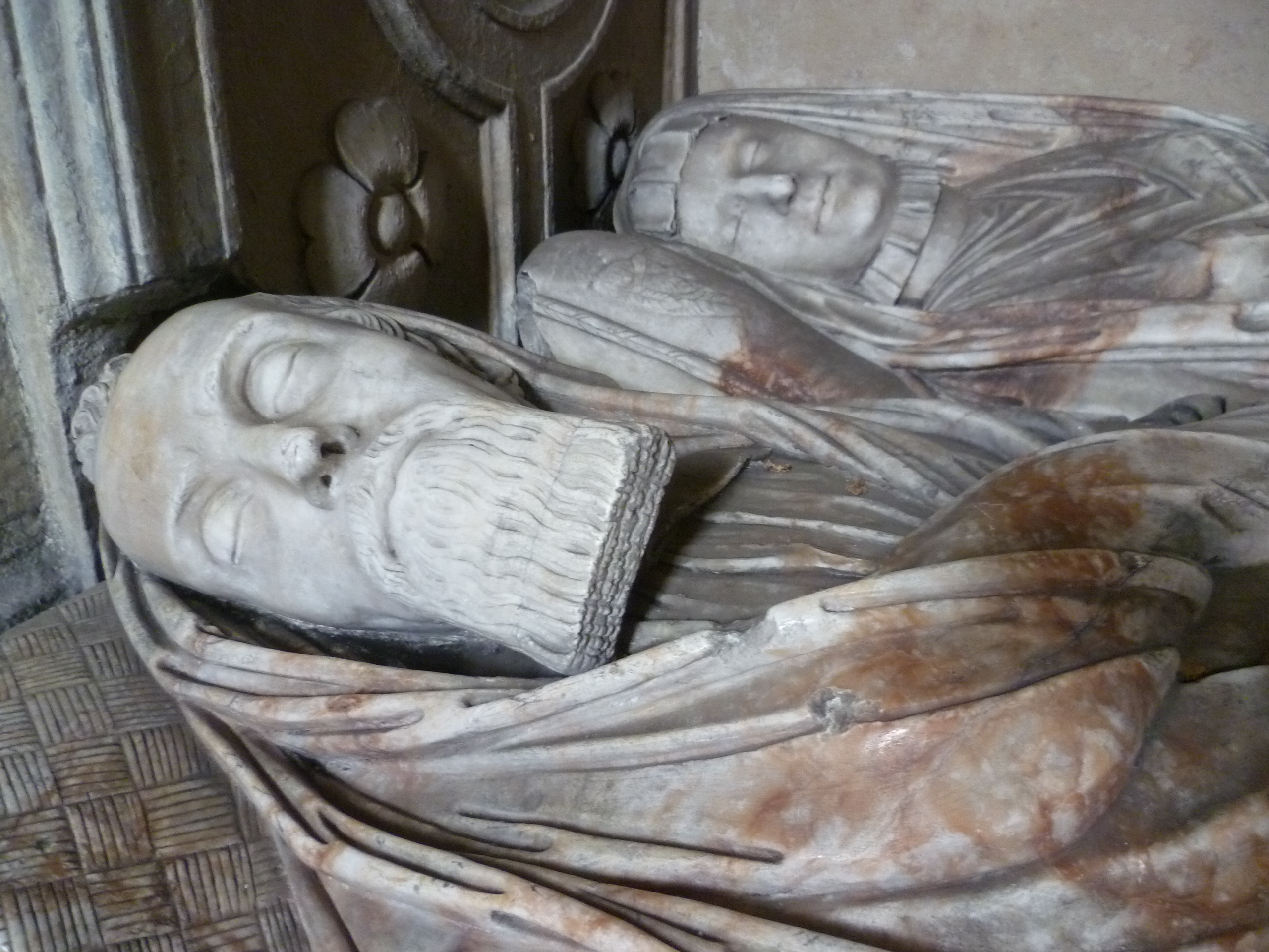 Effigies of Sir George Bruce of Carnock (died 1625) and Lady Bruce in the north transept of Culross Abbey, Scotland